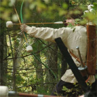 A male person participating as a medieval archer in a Live-Action Game.